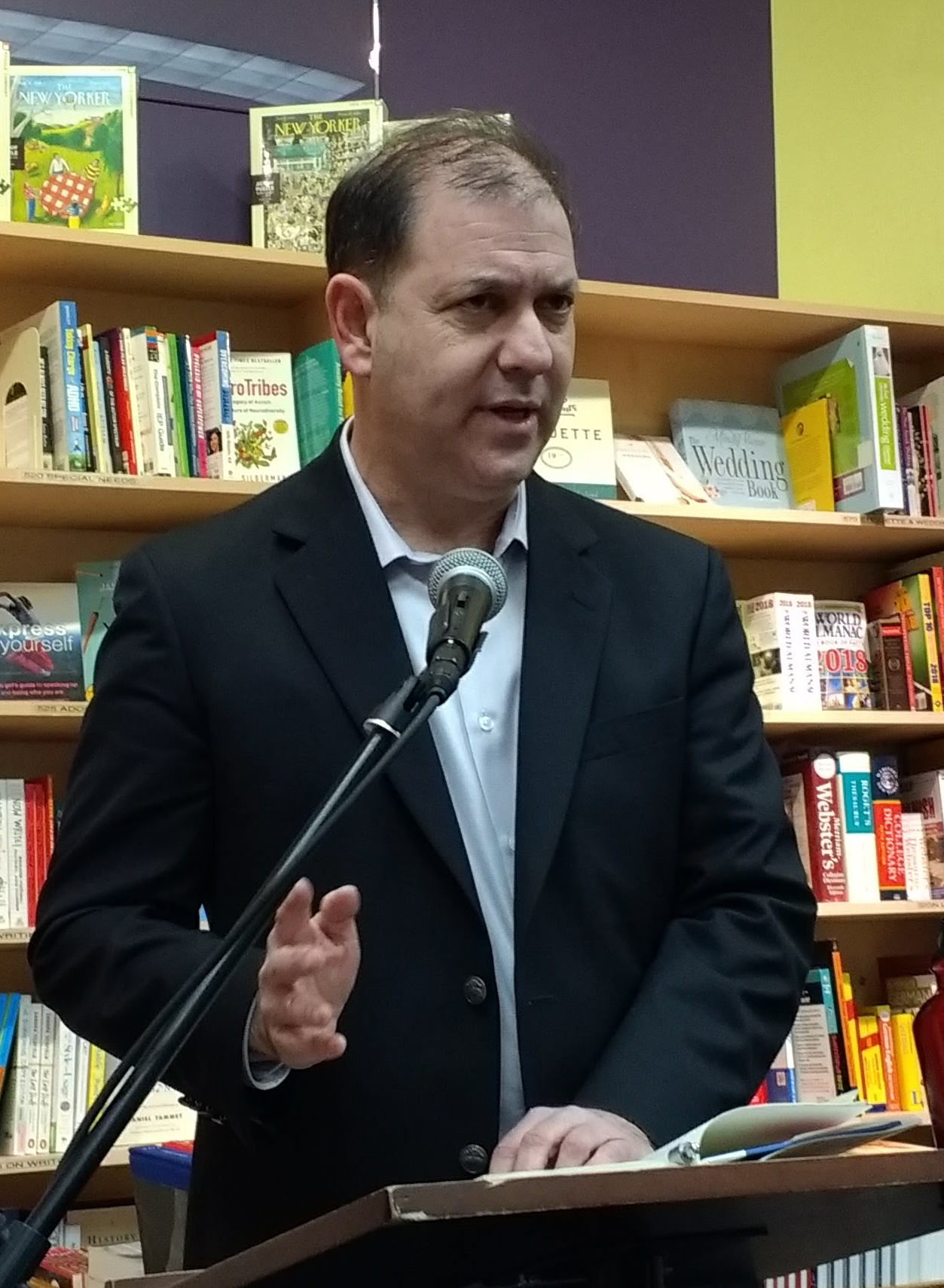 Author Ken Stern at a book reading in 2018.